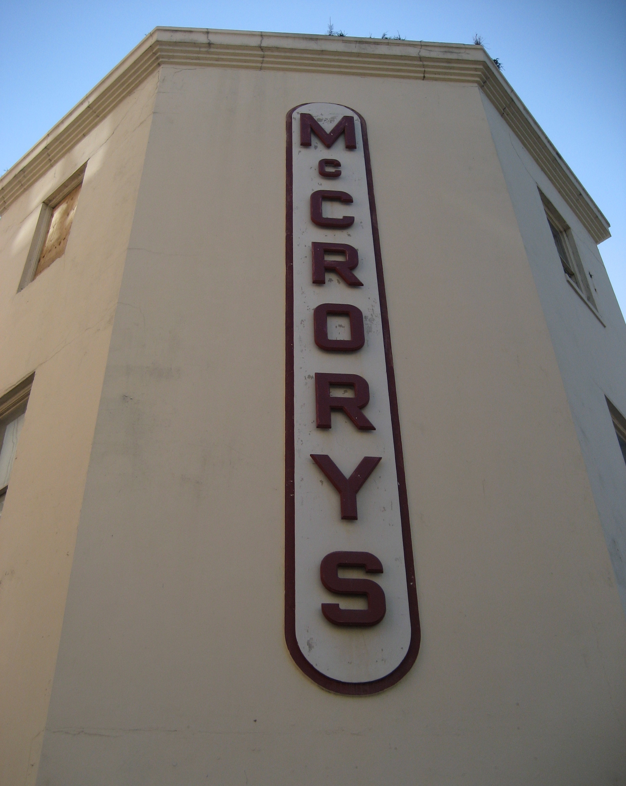 McCrory's sign on Iberville Street in New Orleans. Sign remains though store has been closed for years.